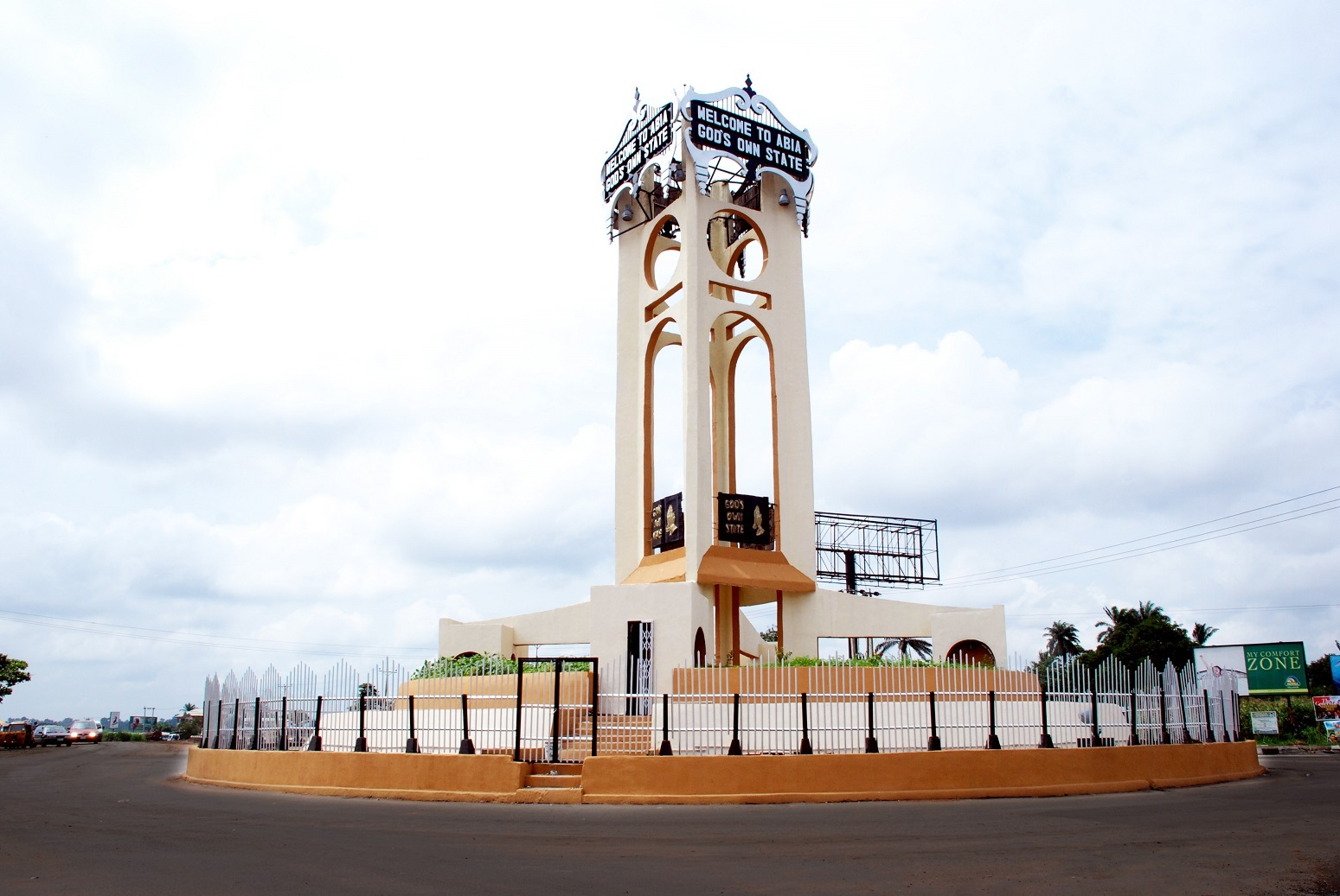 The Abia state tower is an identity landmark in Abia state.